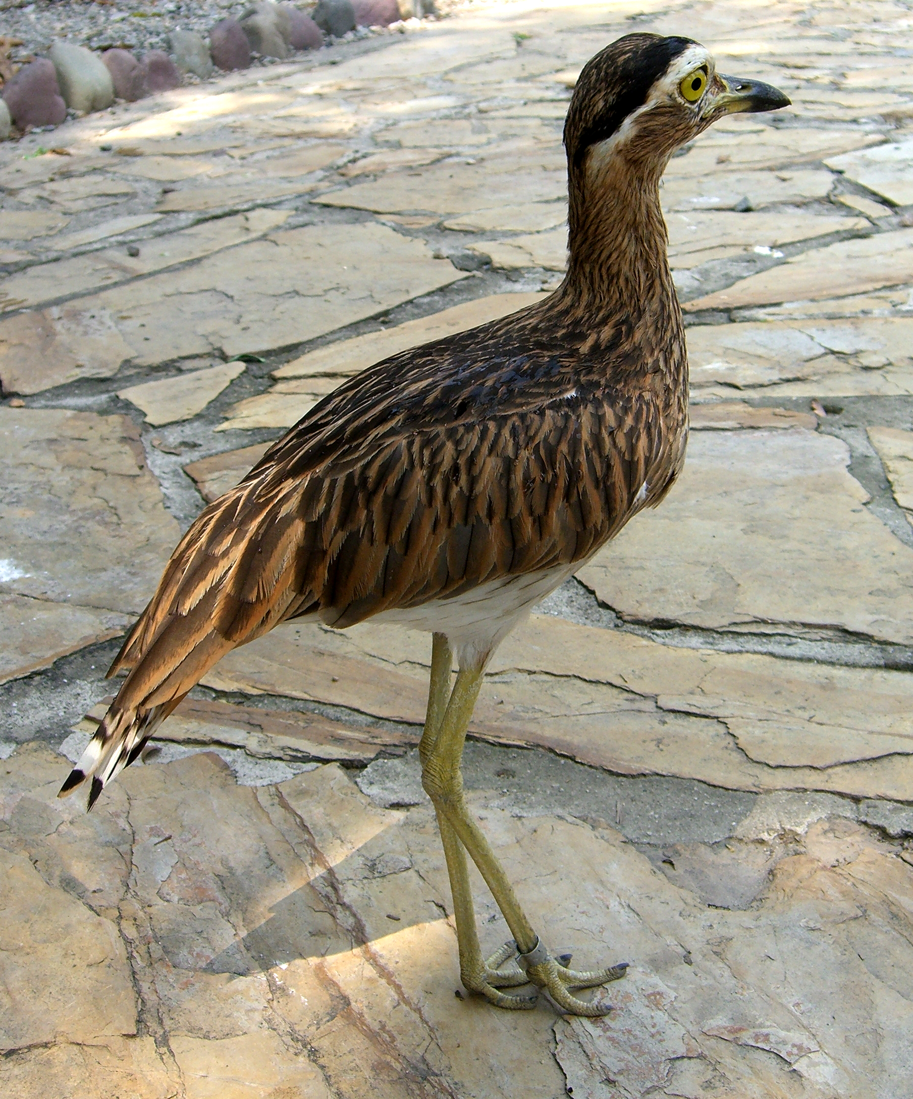 Description: Double-striped Thick-knee (Burhinus bistriatus)